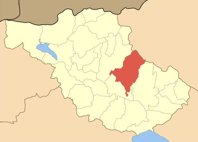 Locator map of Emmanuel Pappas municipality in Serres perfecture in Greece.